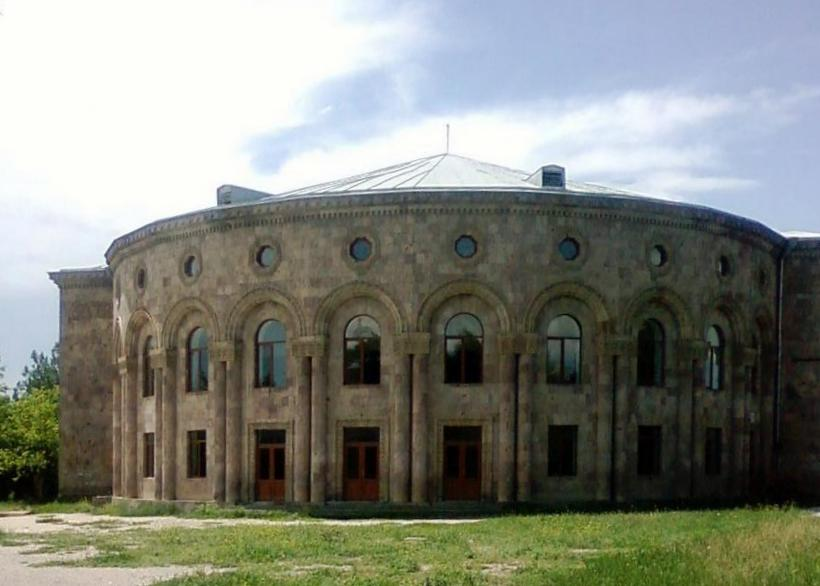 Culture House of Verin Artashat, Ararat Region